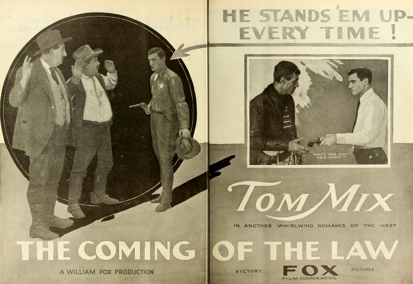 Advertisement in The Moving Picture World for the film The Coming of the Law (1919).